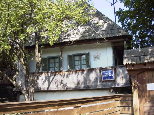 Birth house of Áron Tamási in Farkaslaka